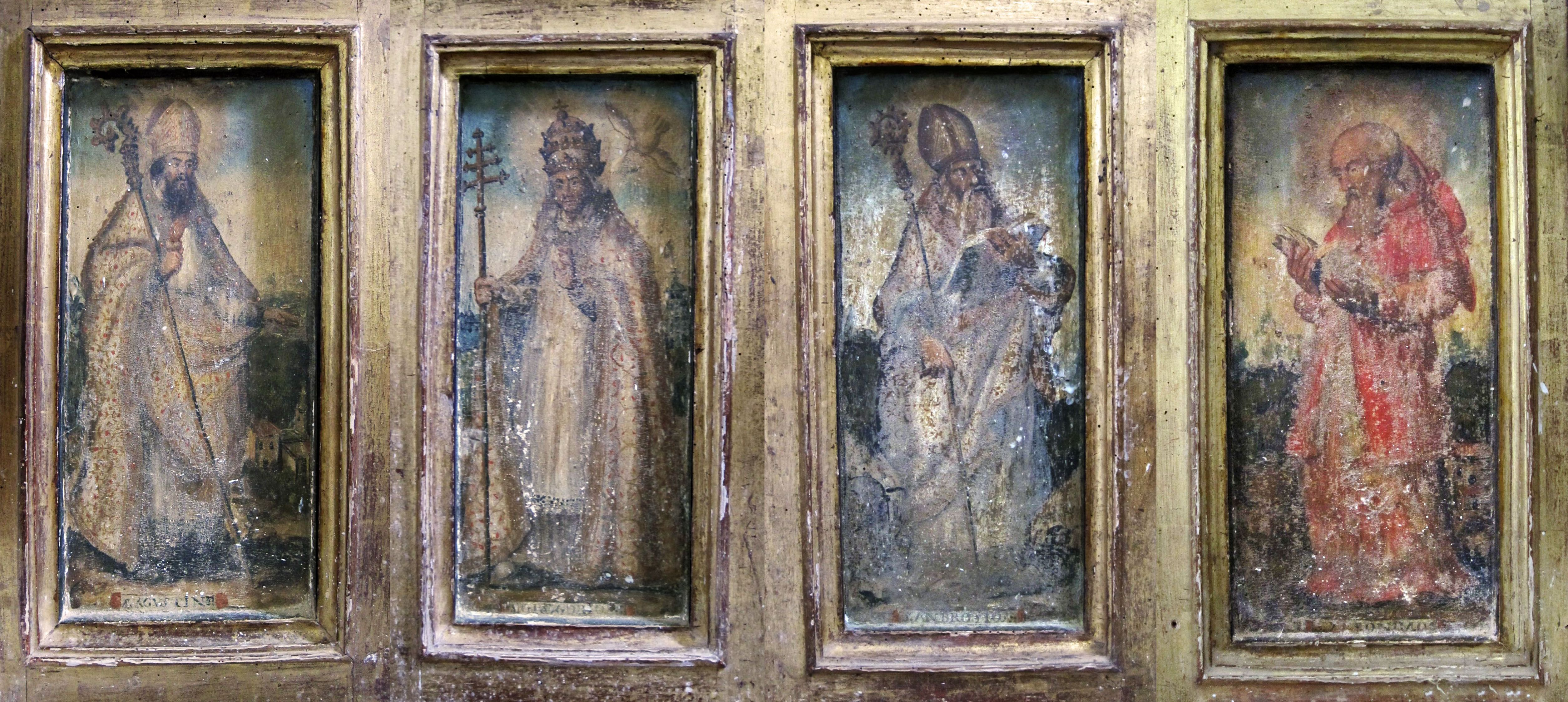 Church of the Assumption of Villamelendro de Valdavia (Palencia, Castile and León). Master altarpiece. Mounting with 4 of the church fathers from lower bank on which are based the four Corinthian columns.